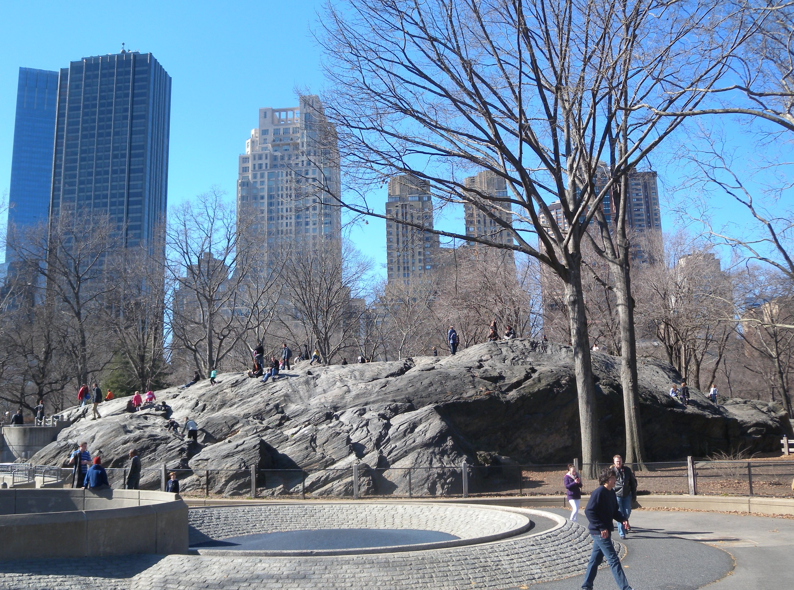 Looking west at Rat Rock on a sunny midday.